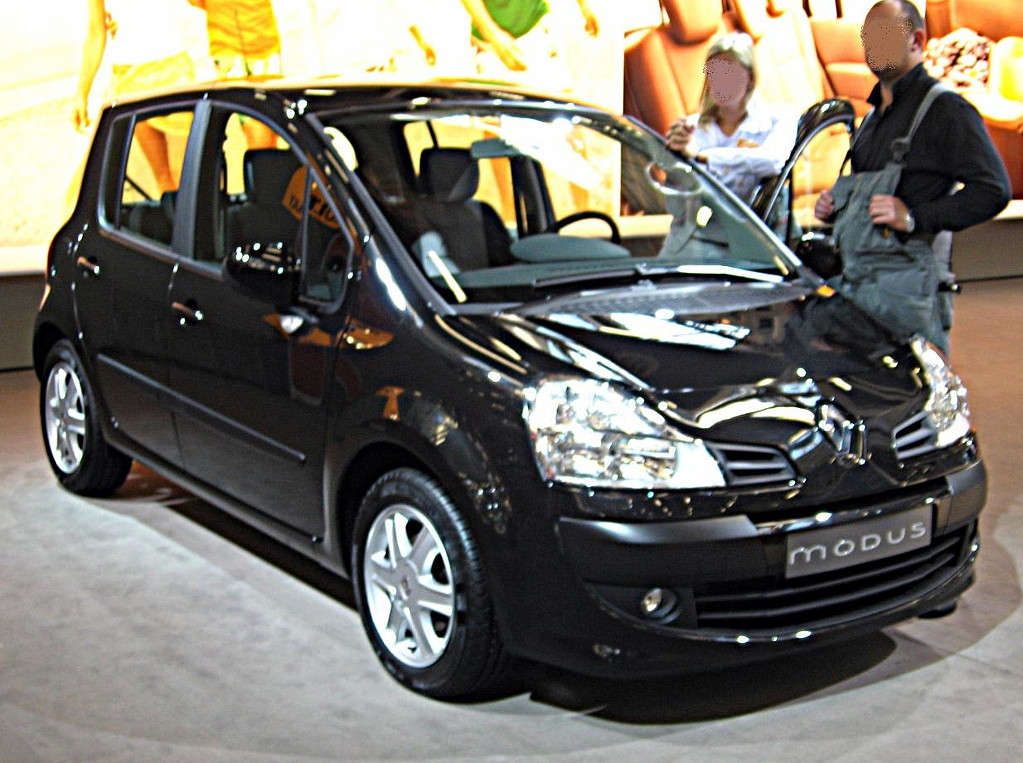 Subject:Renault Modus_MY'08 Author:Luc106 Date:December 13th, 2007 Event:Motor Show Bologna 2007 Place/Country: Bologna, Italy I release all rights in the public domain.